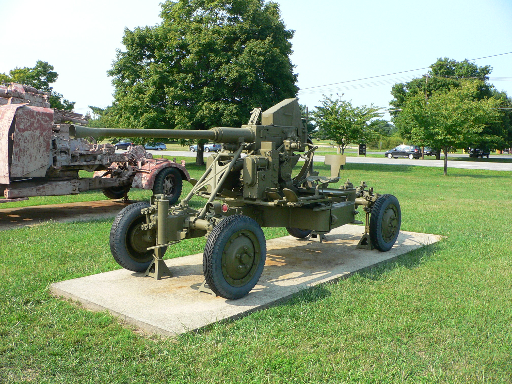 Picture taken by myself, Mark Pellegrini, at the United States Army Ordnance Museum (Aberdeen Proving Ground, MD) on August 14, 2007.